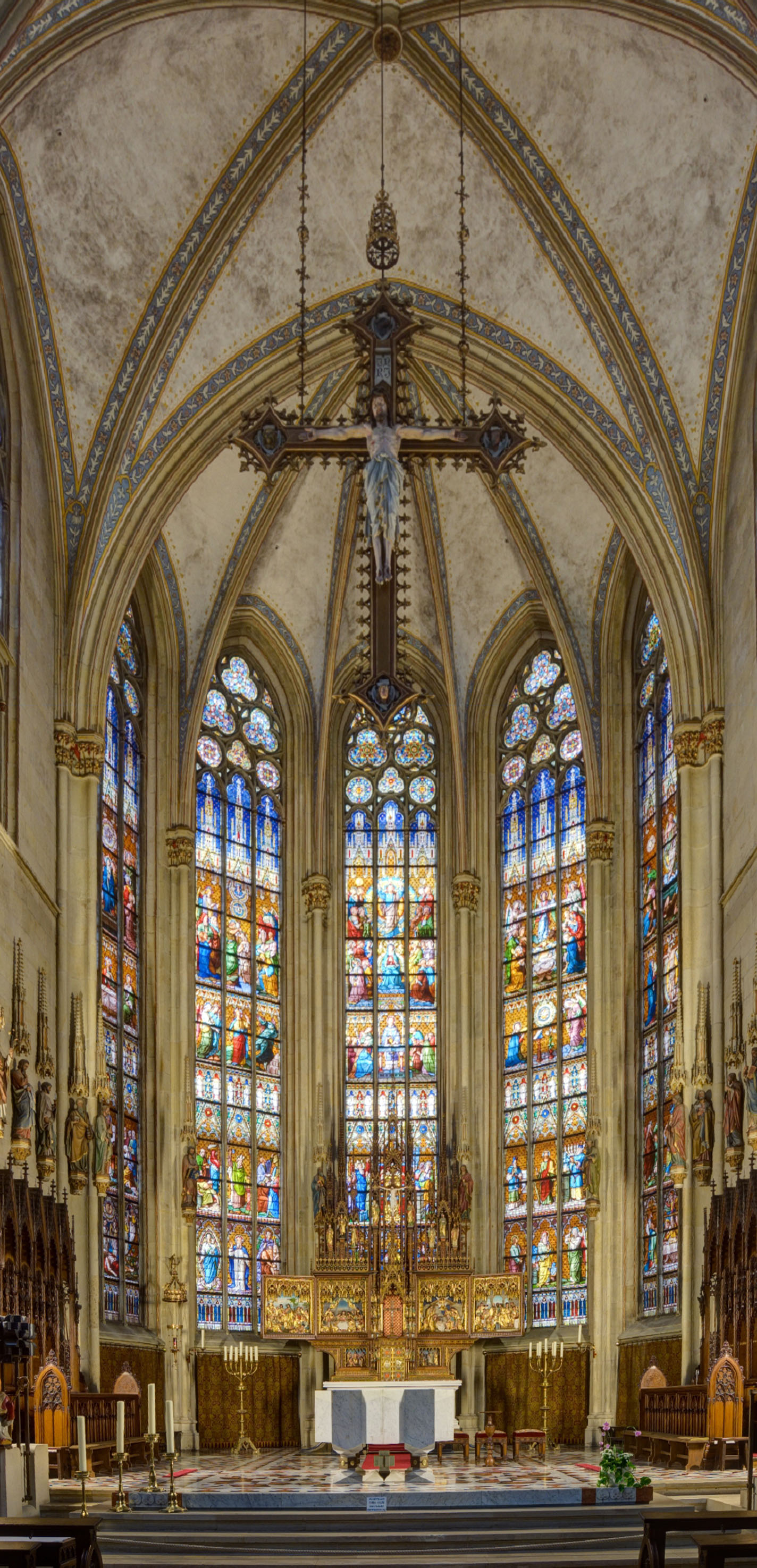 Billerbeck (North Rhine-Westphalia, Germany) – Saint Liudger Priory Church (called “Billerbeck Cathedral”) – main choir This image shows a heritage building in Germany, located in the North Rhine-Westphalian city Billerbeck (no. 11). This photograph was taken with a Nikon D3000